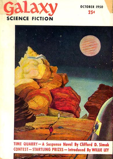 Cover of Galaxy, October 1950